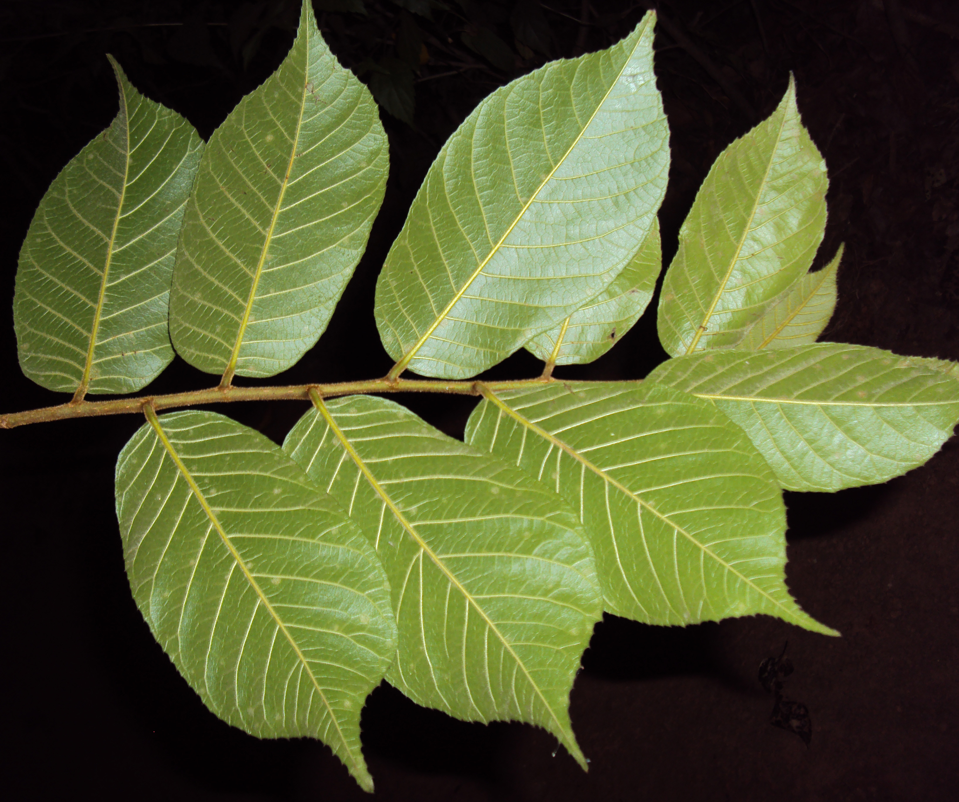 Antiaris toxicaria